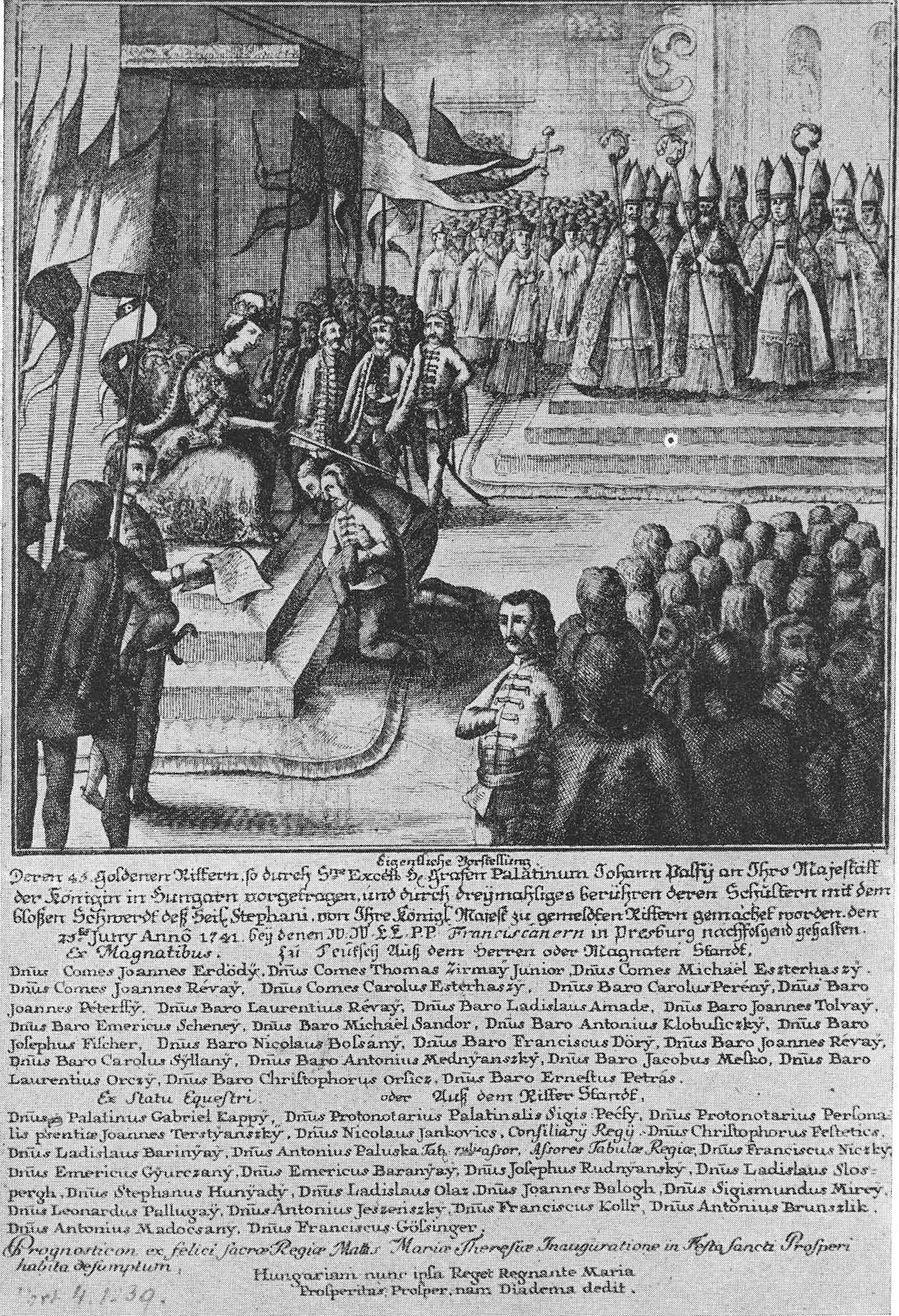 Creation of knights of the golden spur at the coronation of Maria Theresa in 1740